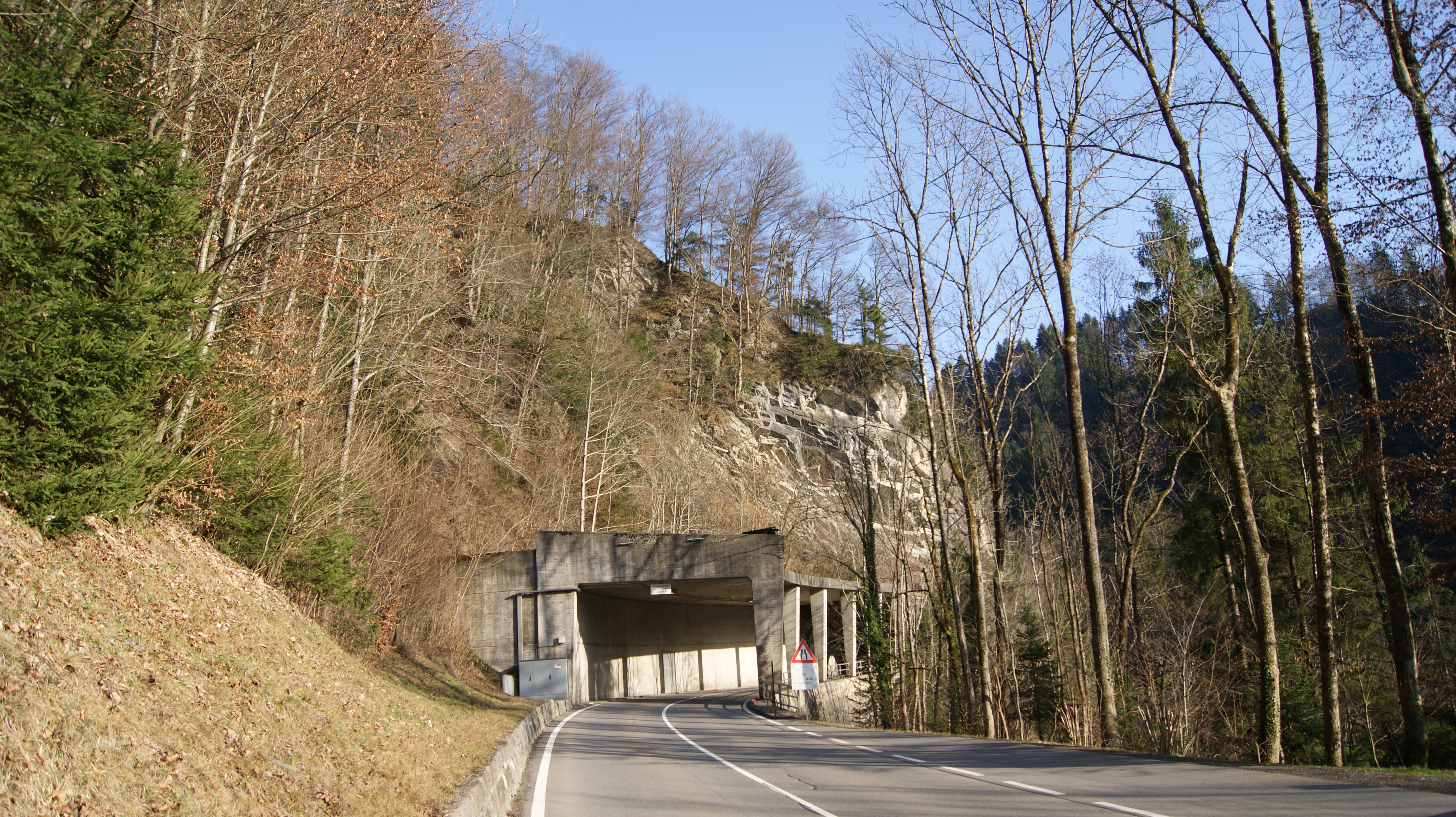 Schwarzachtobel - Street through the Schwarzachtobel (valley) - Tunnel at the Kreuzfelsen (meaning: Rock near the cross) in the valley: "Schwarzachtobel", 118m long. In the middle runs the municipal boundary between the municipality of Schwarzach and Bildstein. About 499 masl.